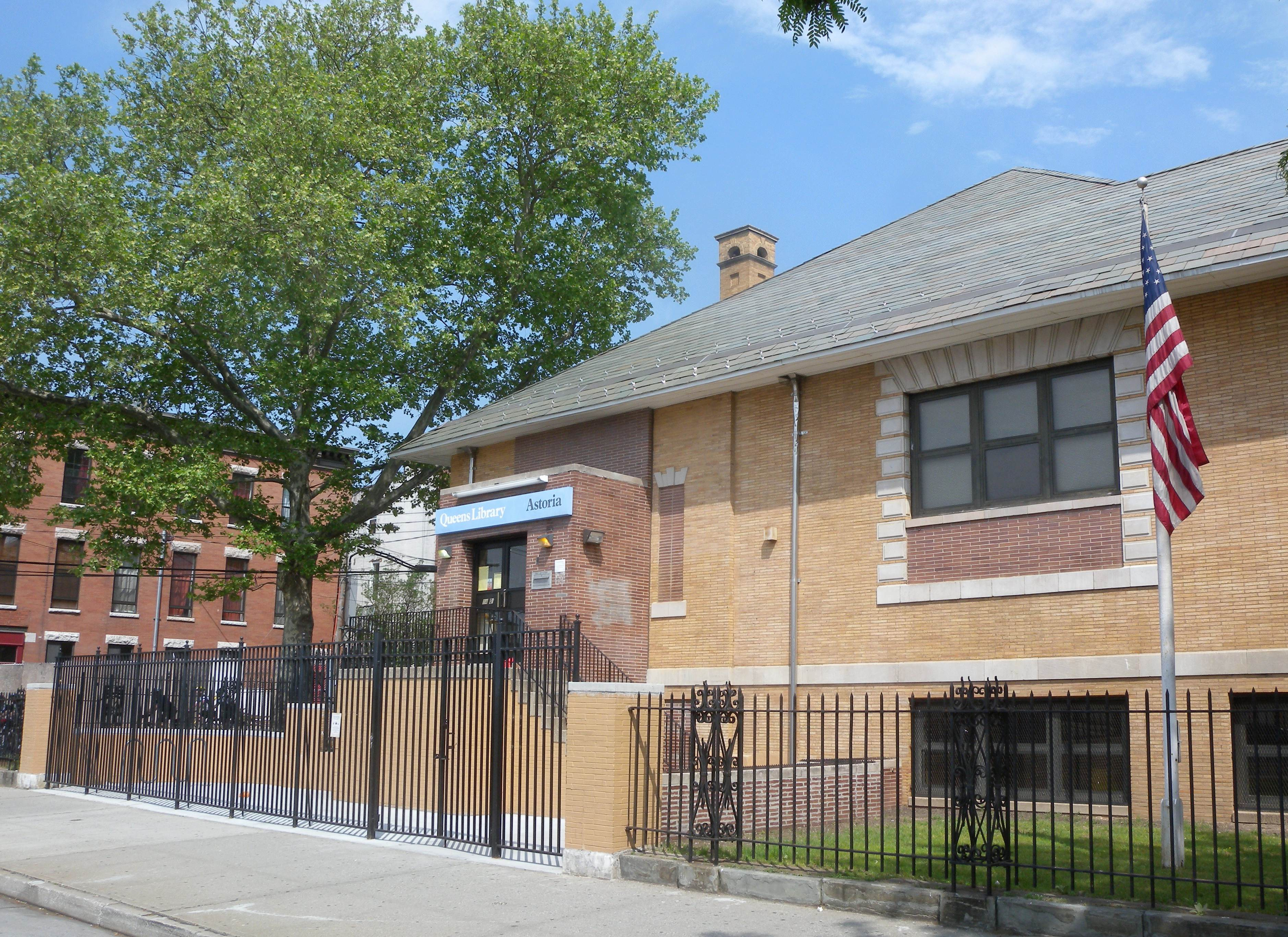 Looking northwest across Astoria Boulevard at library on a sunny morning. ZIP 11102.